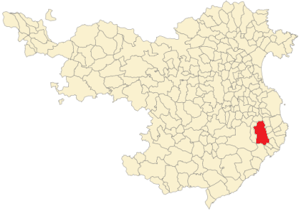 Forallac